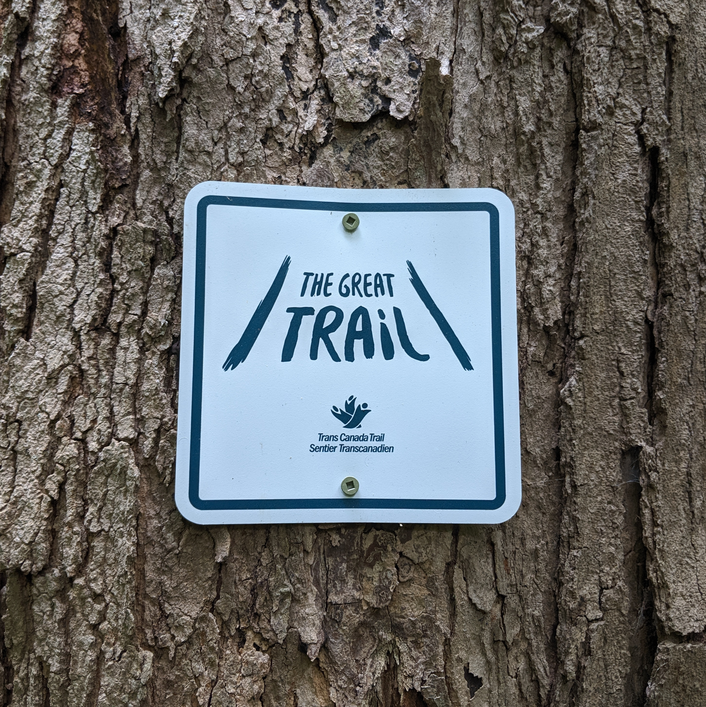 Glen Major trail in East Duffins Headwaters